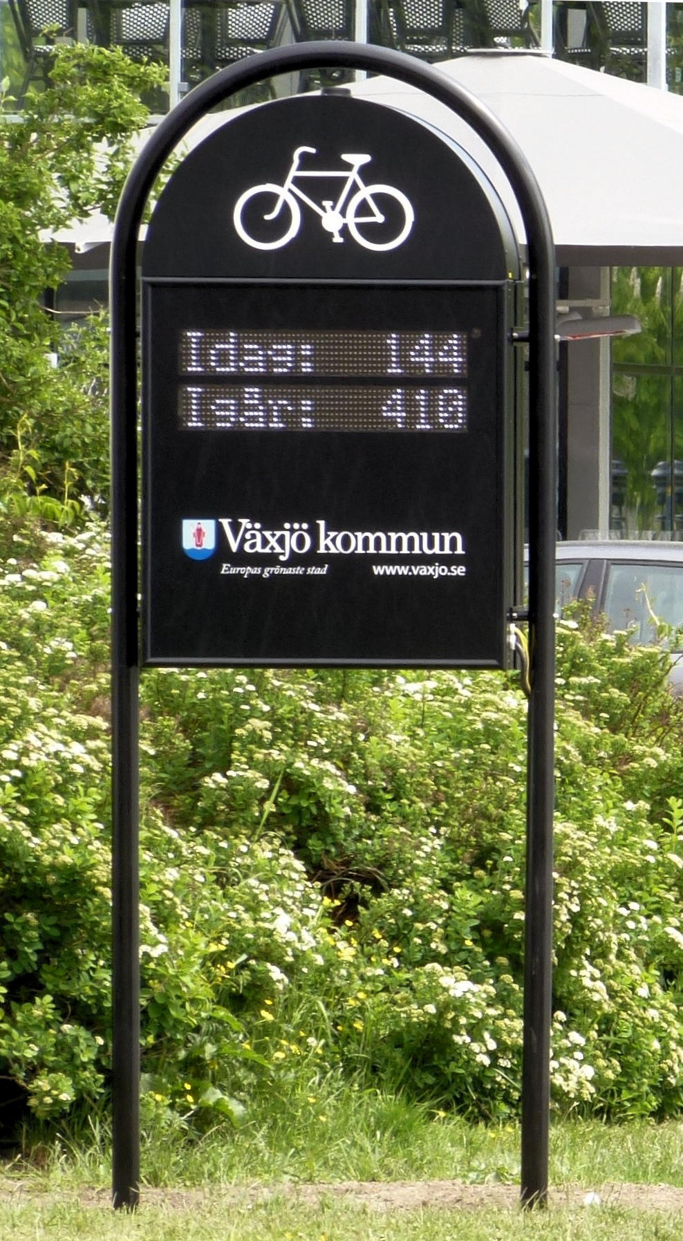 Bike barometer i Växjö